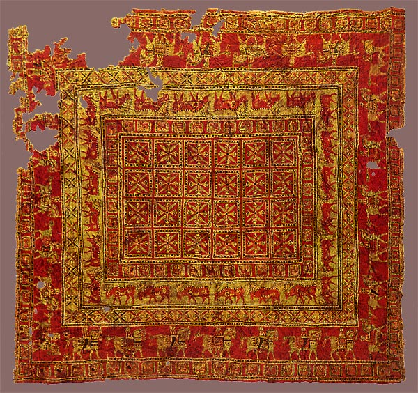 The world's oldest known pile carpet was found in the largest of the Pazyryk burial mounds, Altay mountains. It is exhibited in the Hermitage Museum Saint Petersburg [1]